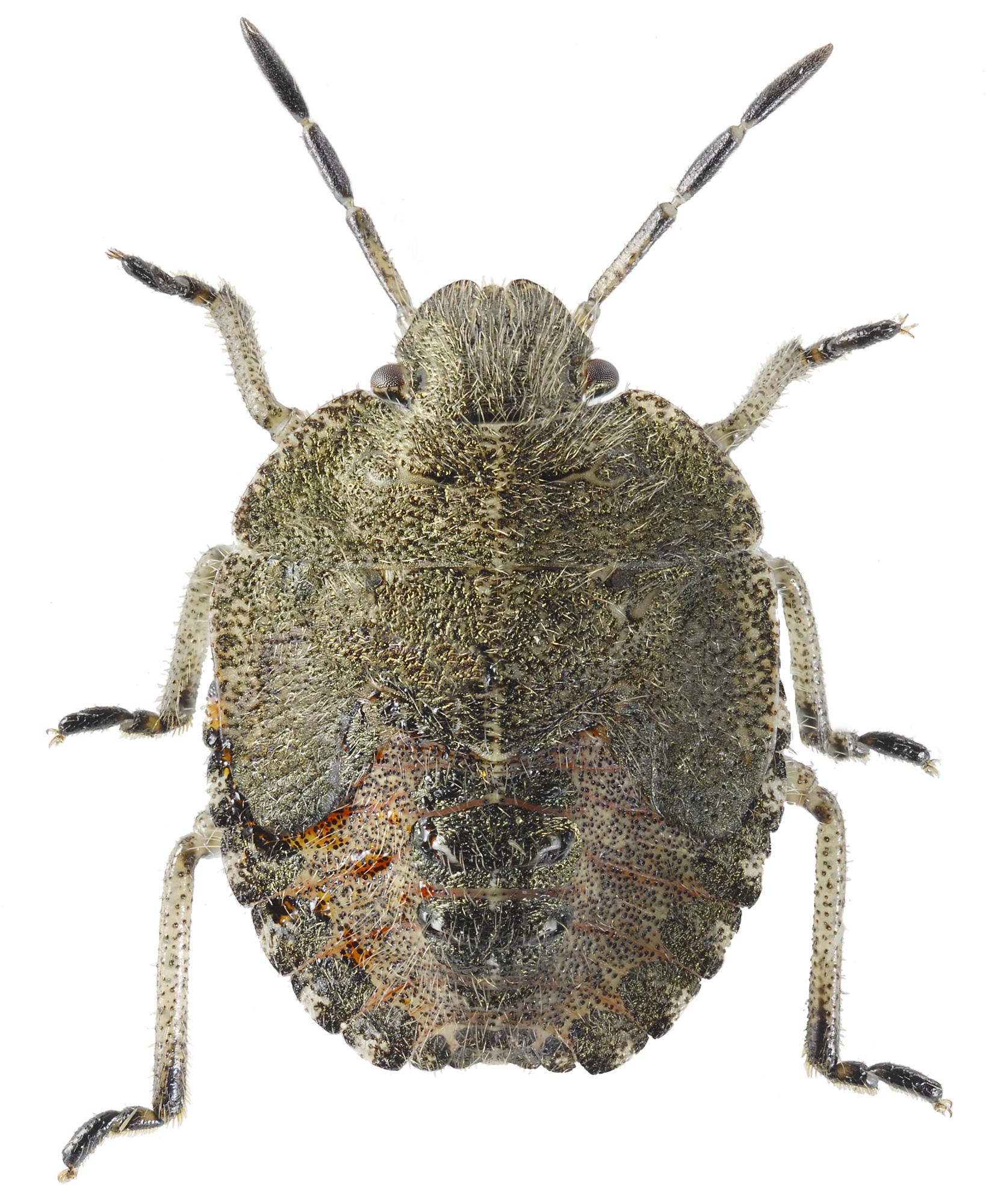 Dolycoris baccarum, nymph